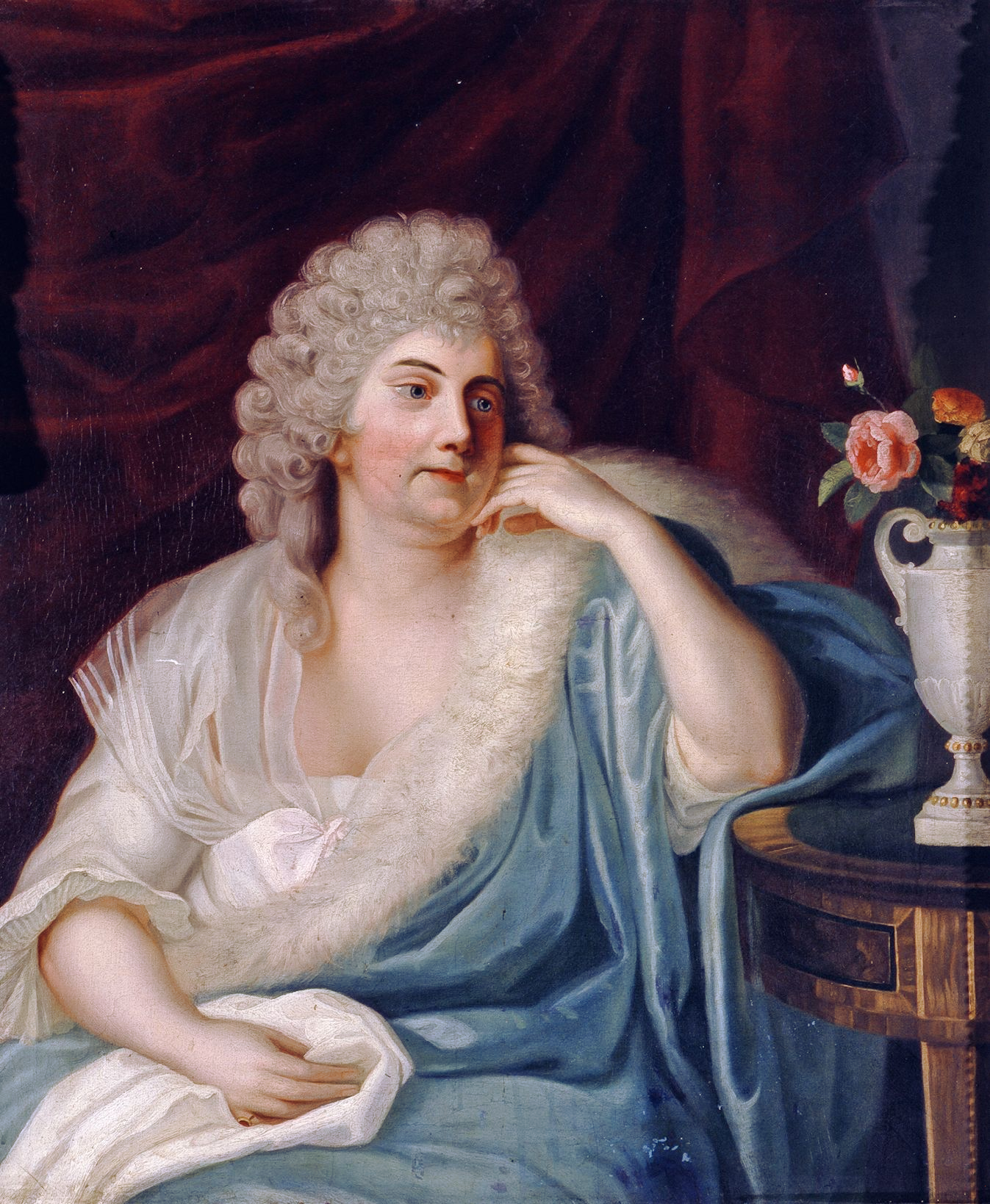 Portrait of Princess Sophie Caroline of Brunswick-Wolfenbüttel (1737-1817), wife of Frederick, Margrave of Brandenburg-Bayreuth